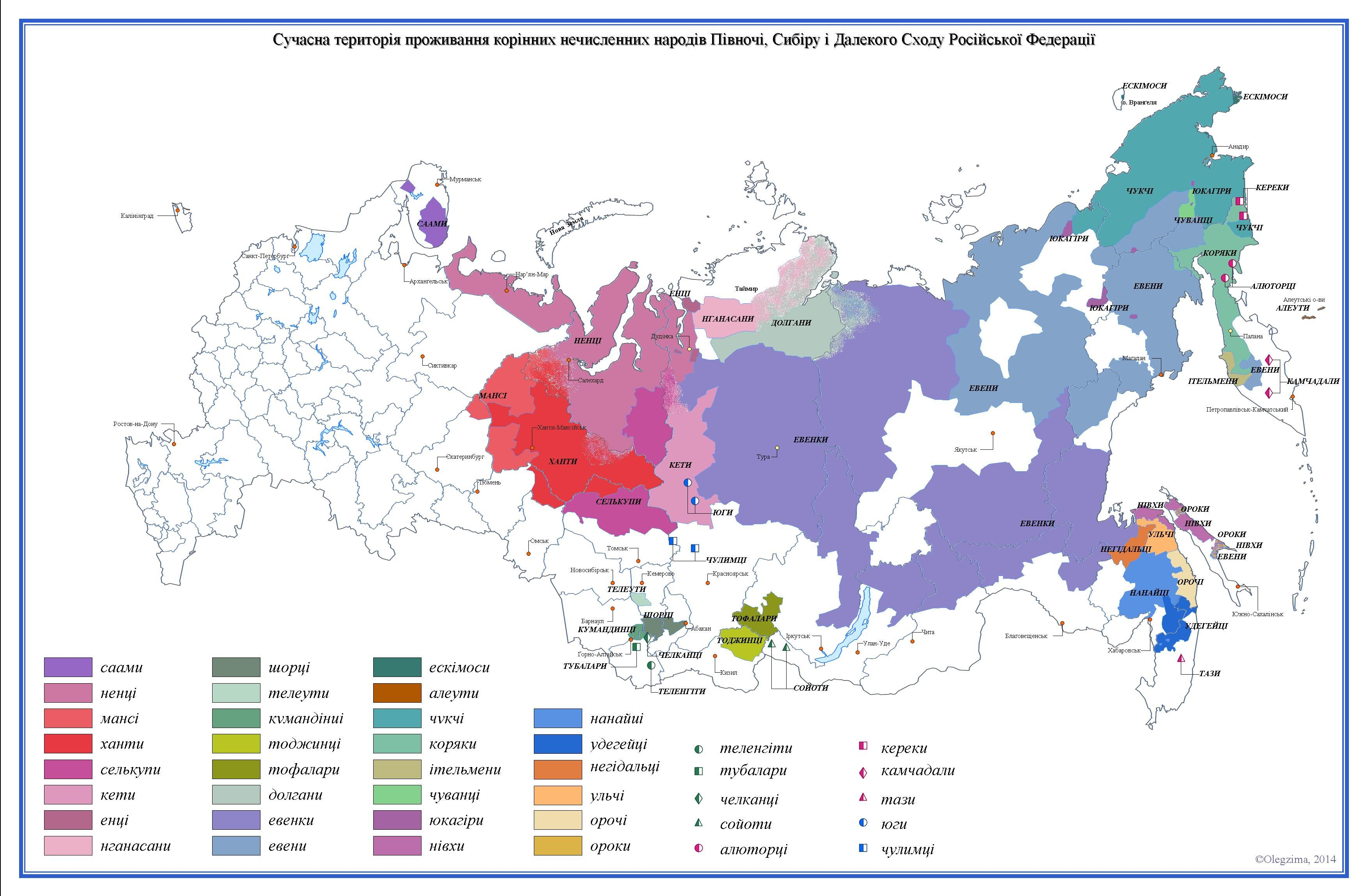 The territory of modern Indigenous Peoples of the North, Siberia and the Far East of the Russian Federation